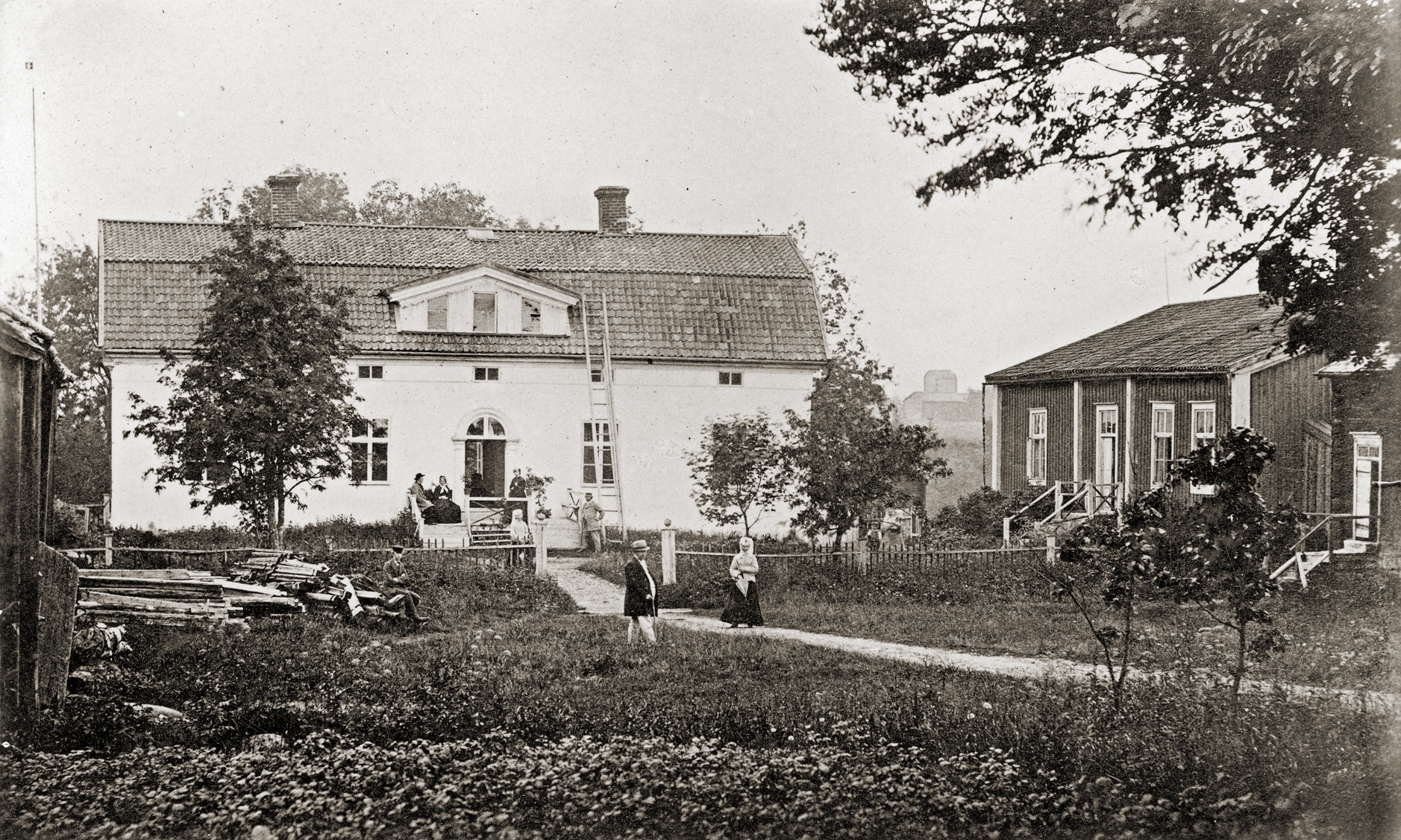 Kuddnäs gård, Uusikaarlepyy, Finland, Home of Zacharias Topelius when he was a child